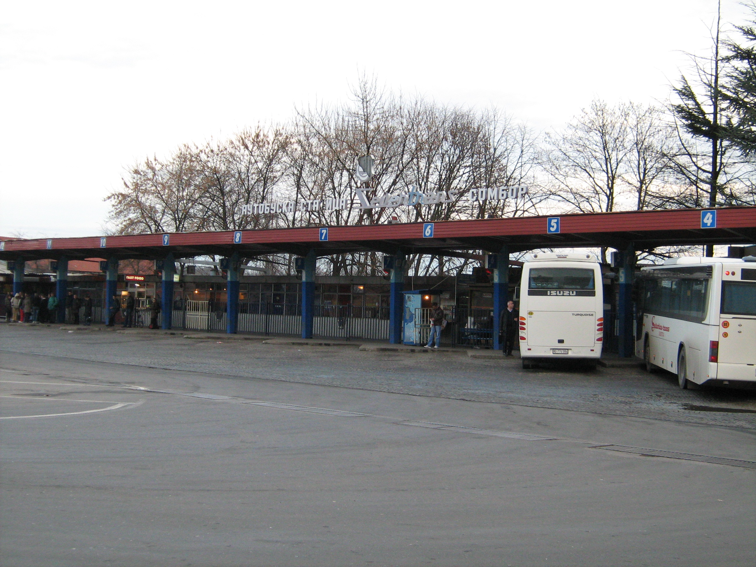 Main bus station in Sombor, Serbia. Isuzu Turquoise bus (reg. BG-774-384).